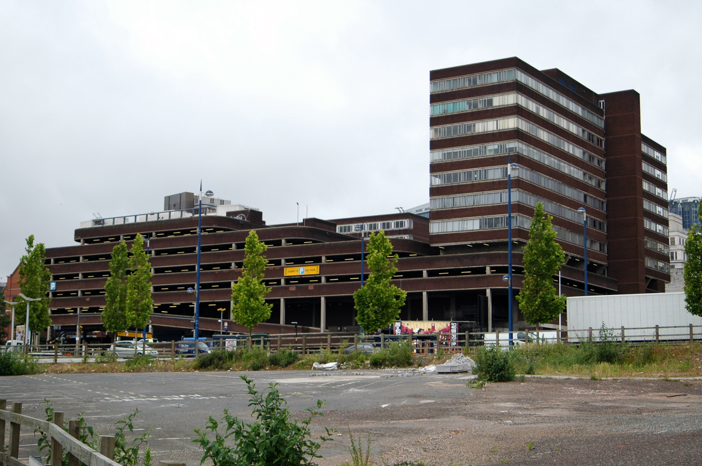 The Dale House and the adjacent multi-storey car park in Birmingham, England. They were to be demolished as part of the Martineau Galleries development, which was also to redevelop the site of the Priory Square shopping area and Carling Academy site in Birmingham. The development was being carried out by the Birmingham Alliance, the group who have already completed such projects as the Bullring and Martineau Place. *Demolition was to begin in 2008.